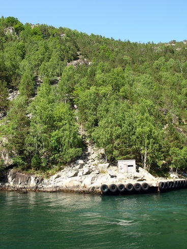 Local picture from Lysefjorden in Rogaland in Norway.